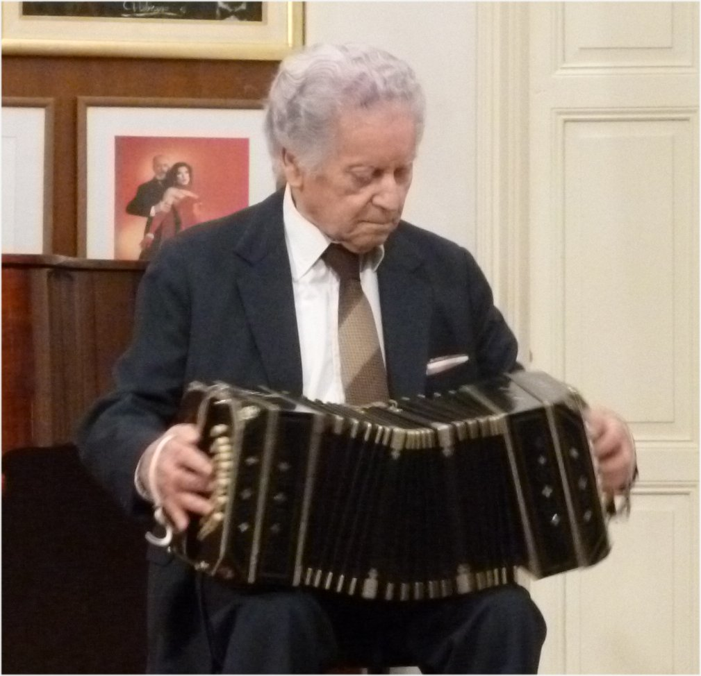 Juan Carlos Caviello, Argentine tango musician, bandoneonist. At the Academia Nacional del Tango de la República Argentina. He is playing with the bandoneon of Anibal Troilo.